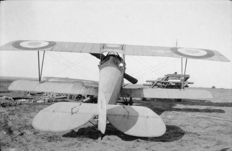 Knatchbull M (capt the Hon) Collection No. 5 Squadron R. N. A. S., Nieuport 10 aeroplane, Tenedos, Gallipoli, July 1915.